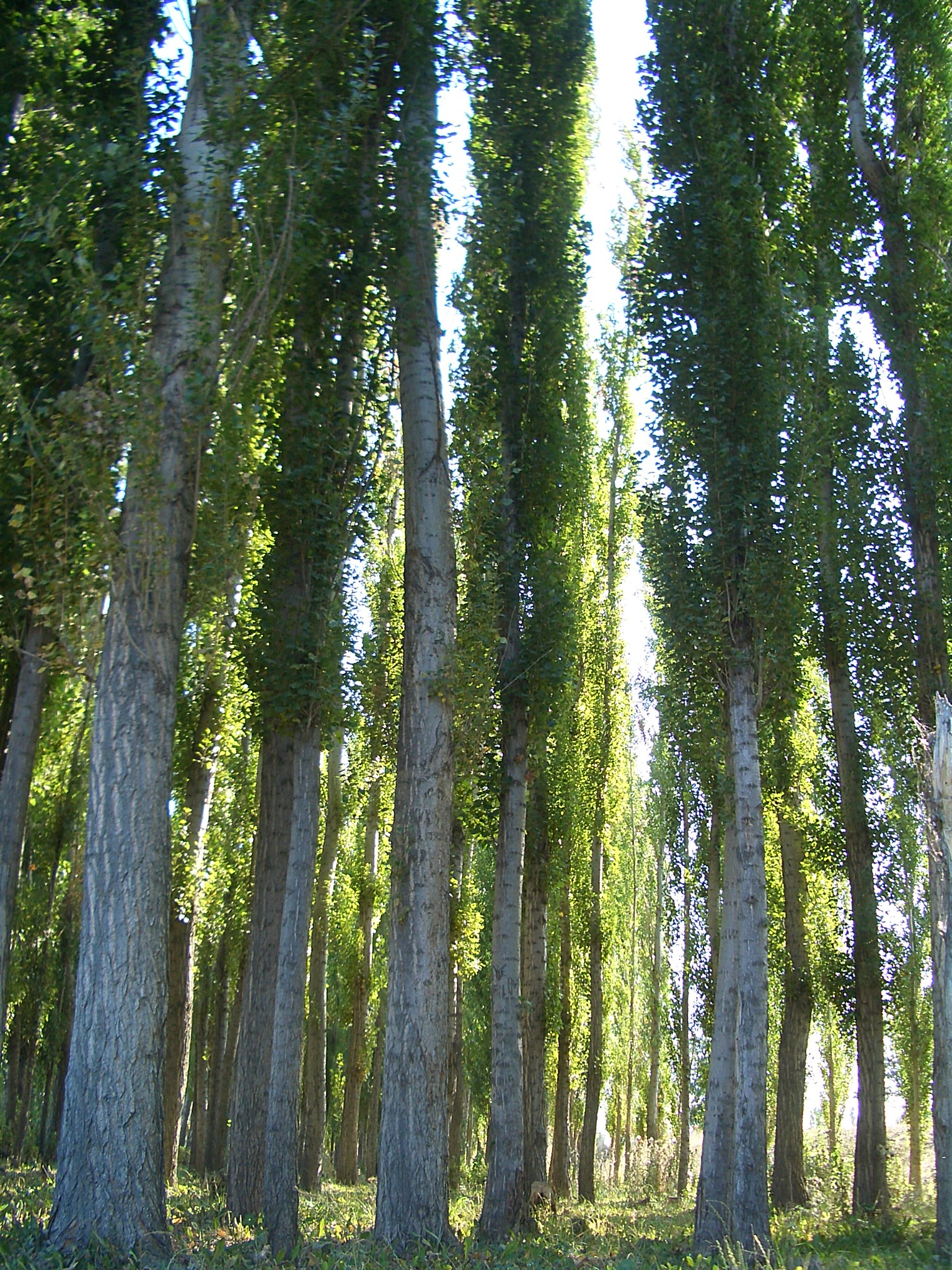 Poplars growing along an irrigation canal in the Chuy Valley, east of Milyanfan village, Chuy Province of Kyrgyzstan